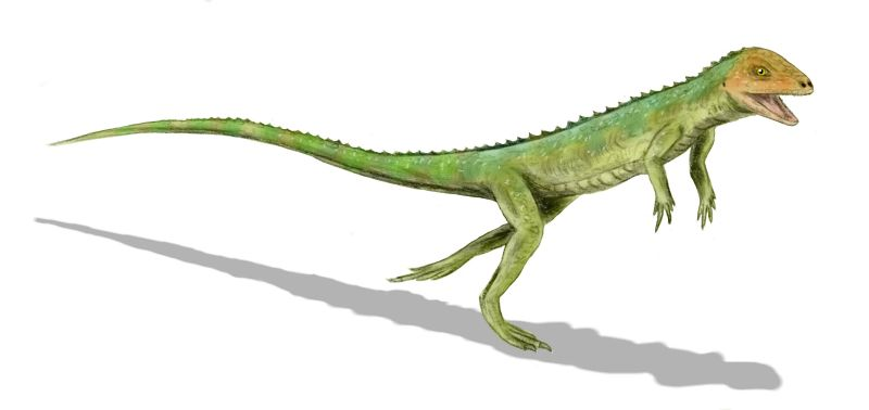 Eudibamus cursoris, an eosuchian (bolosaur) from the Upper Permian of Germany, pencil drawing